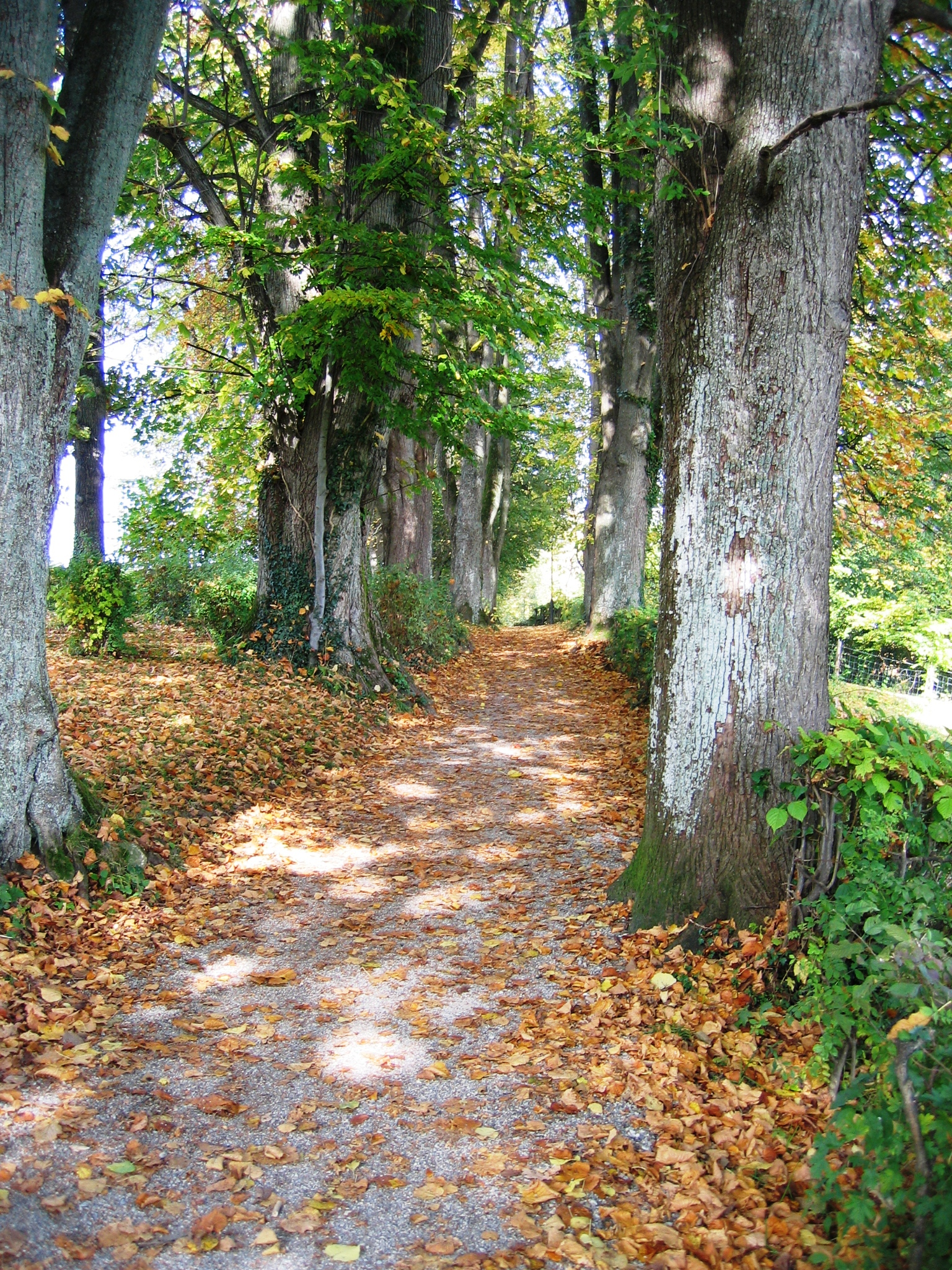 Murnau - Kottmueller-Alley